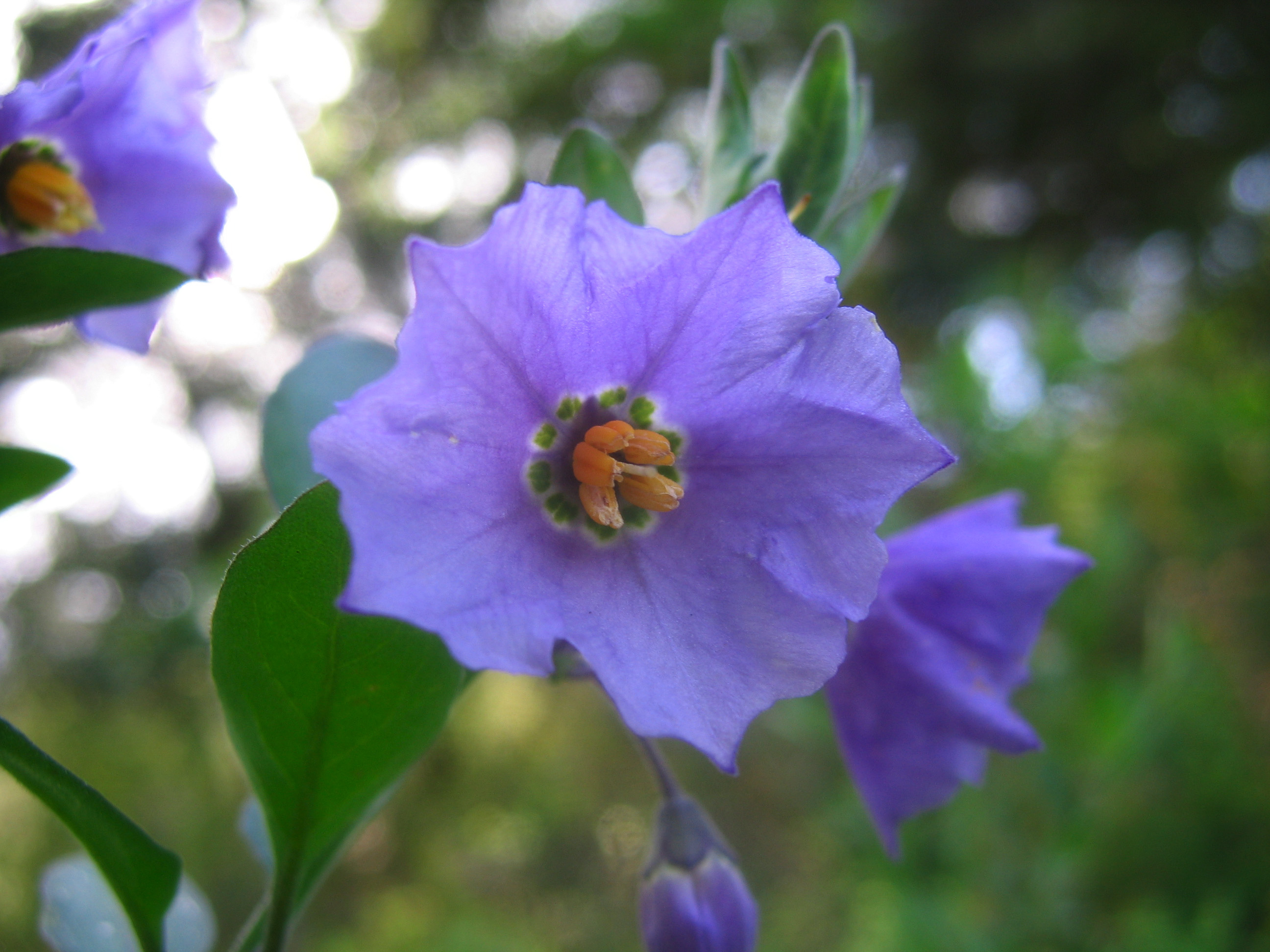 Solanum xanti — Purple Nightshade Mitchell Canyon trail, Mt. Diablo, Northern California. (Jepson)